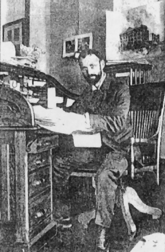 Photograph of C.B.J. Snyder